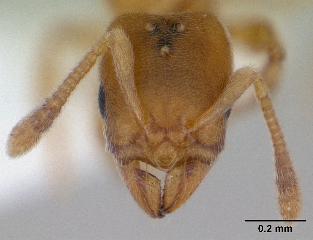 Head view of ant Typhlomyrmex pusillus specimen casent0173389.